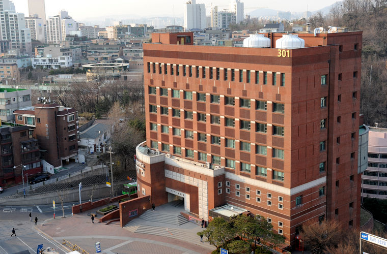 CAU Art Center